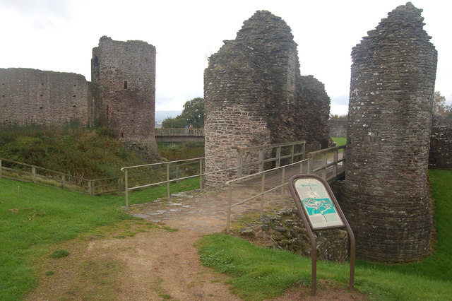 The ruins of White Castle on a gloomy October day